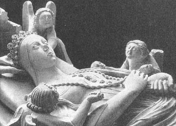 Detail of the tomb of Inês de Castro